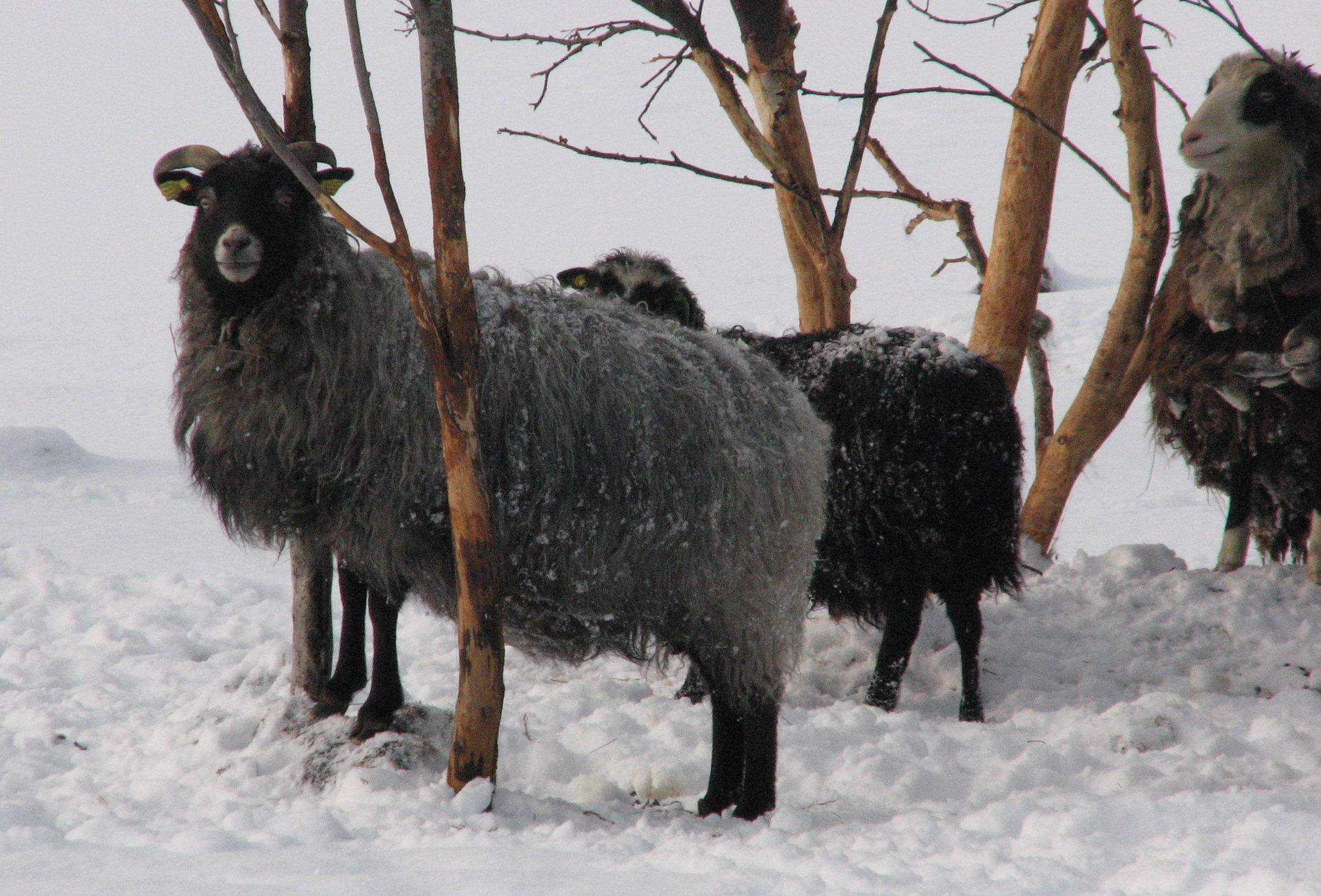 old land race in Norway , so called Wild Sheep or old norse sheep. A very hardy breed. Here seen in a snowy landscape on the Island of Grytøy, Troms, northern norway